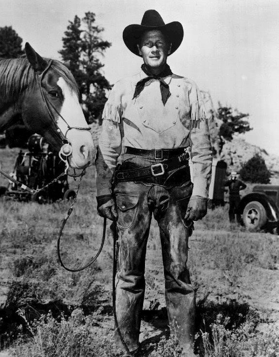 Photo of Joel McCrea as ranger Jayce Pearson and horse, Charcoal, publicity still for the radio version of the program Tales of the Texas Rangers. McCrea played the role on radio only; the role of Pearson on television went to Willard Parker. McCrea is in costume from the 1950 film "The Outriders", which had been released just before the radio series began.